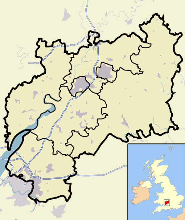 Map of Gloucestershire, England, UK